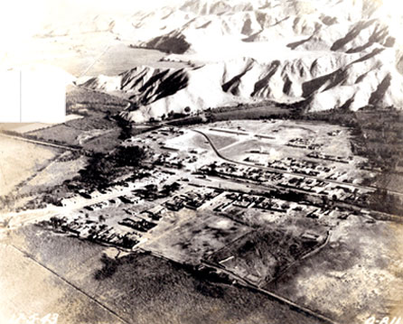 terreno